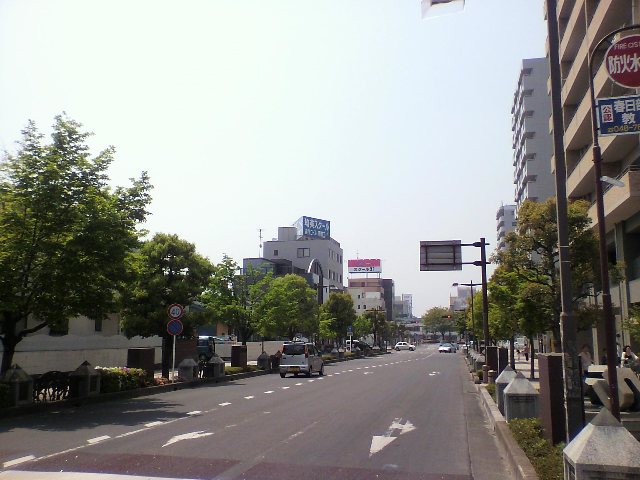 This is a landscape of Kasukabe 1 chome, Kasukabe, Saitama, Japan.